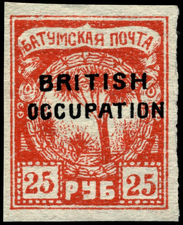 Batum 25-ruble stamp of 1920, scanned December 2005 by User:Stan Shebs